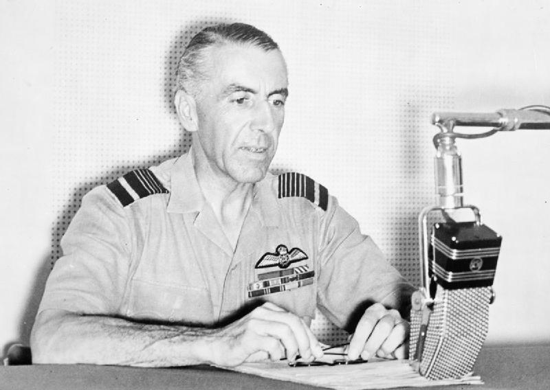 Air Ministry Second World War Official Collection Air Chief Marshal Sir Richard Peirse